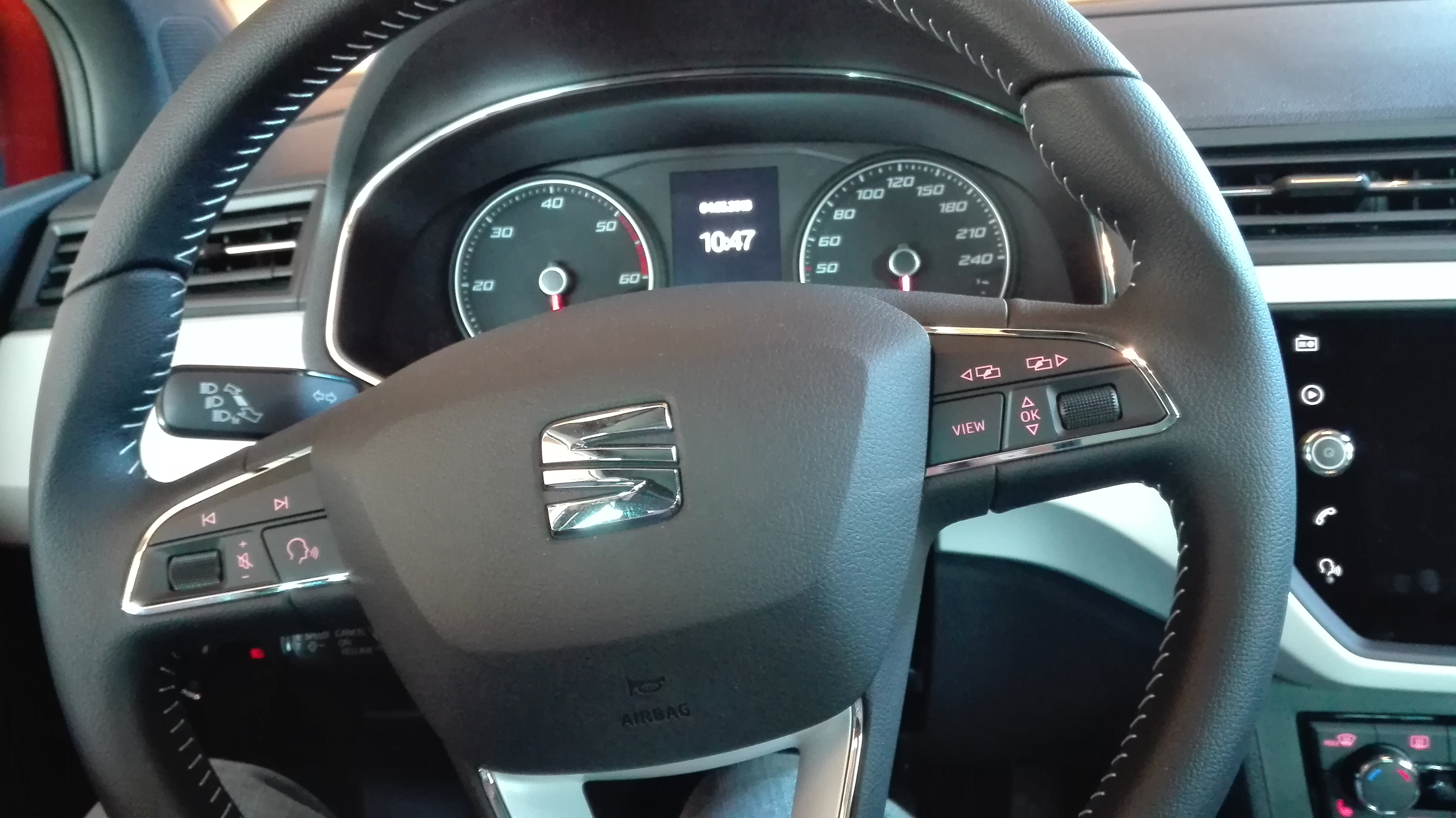 Seat Arona interieur